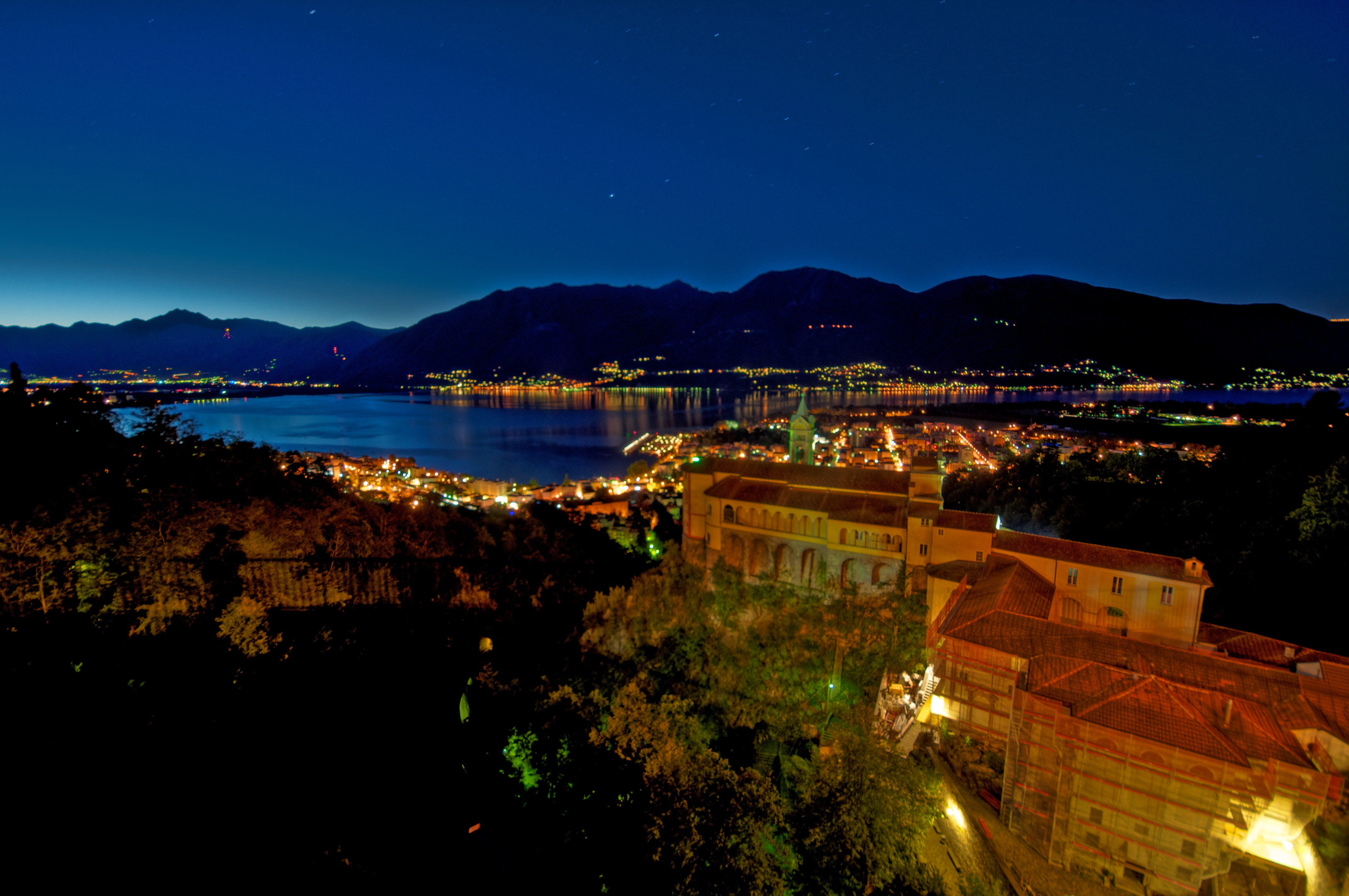 From above the sanctuary of Madonna del Sasso in Orselina looking downwards to Locarno and Muralto, Ticino, Switzerland.